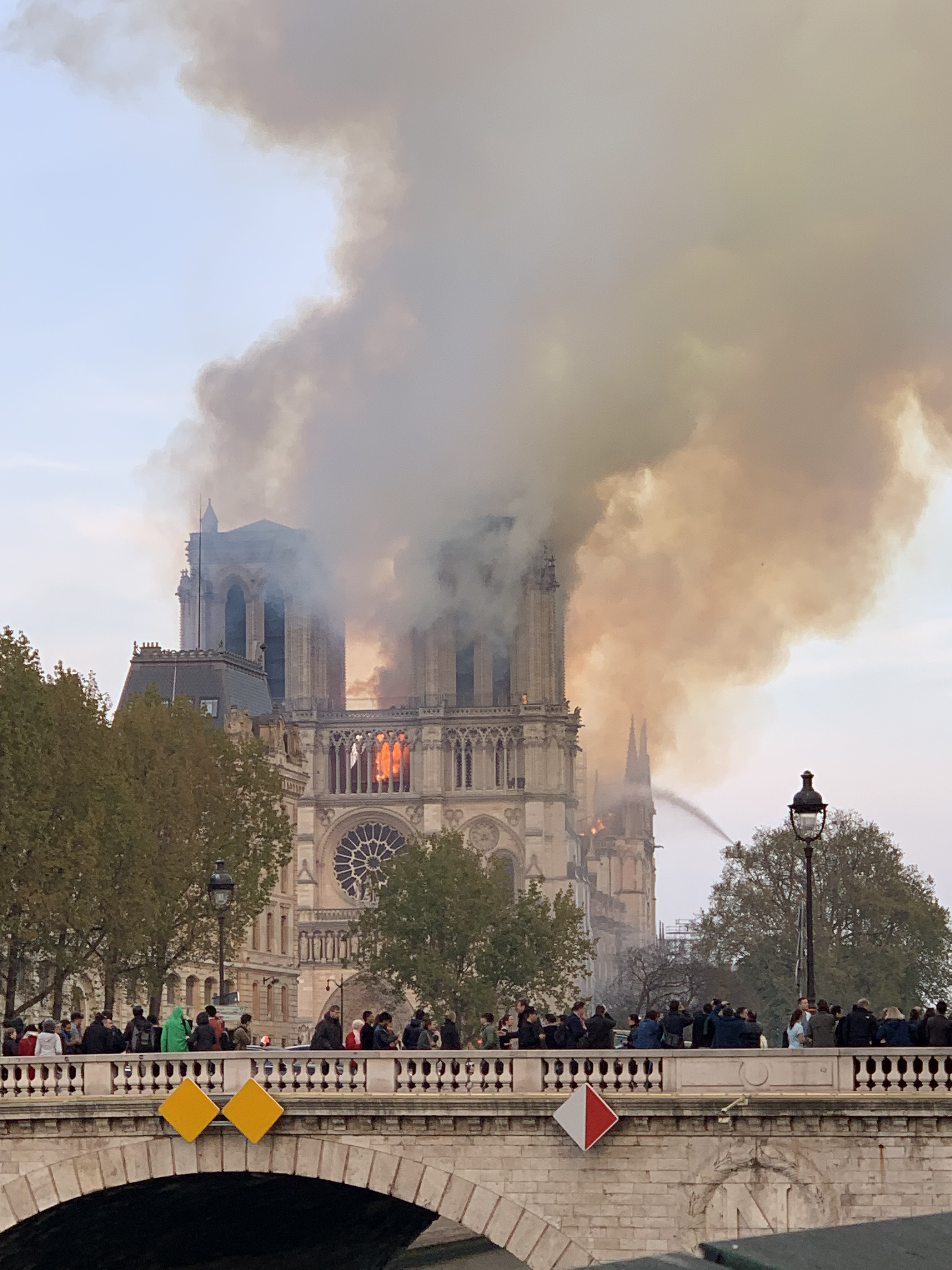 Notre Dame de PAris in flames, view from the Quai des Augustins